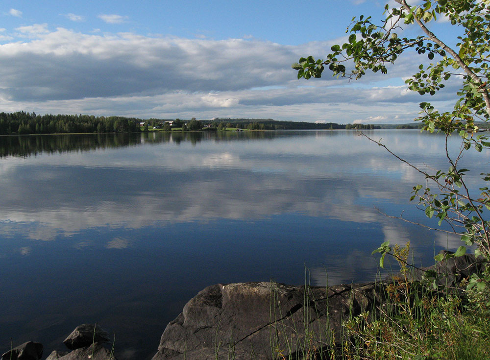 Lake Kussjön in Västerbotten province, Sweden. On the other side of the lake is the village Kussjö.